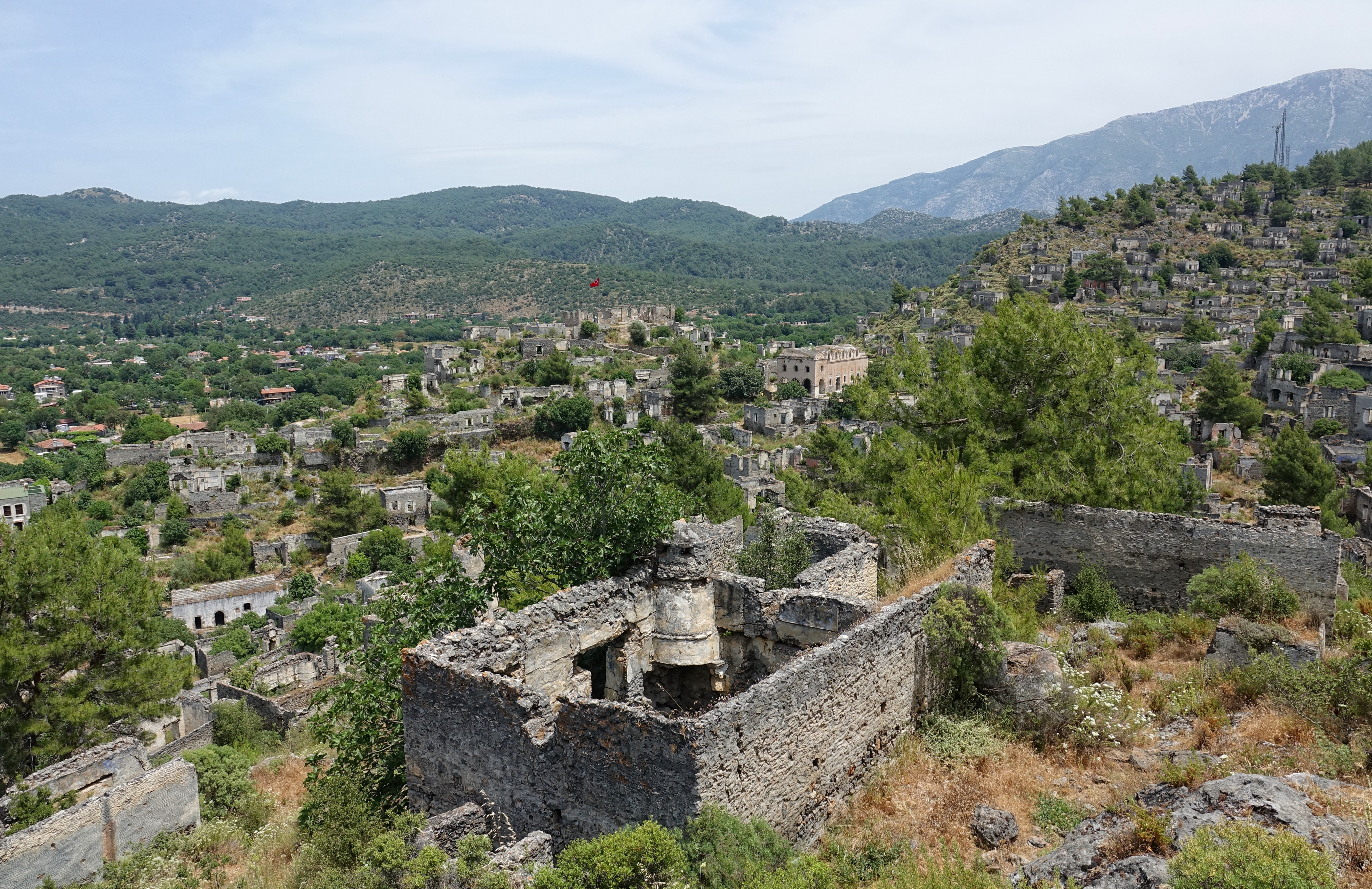 The Greek town formerly known as Livissi in Turkey as it looks today, more than a century after being abandoned through a relocation and removal of its former residents.